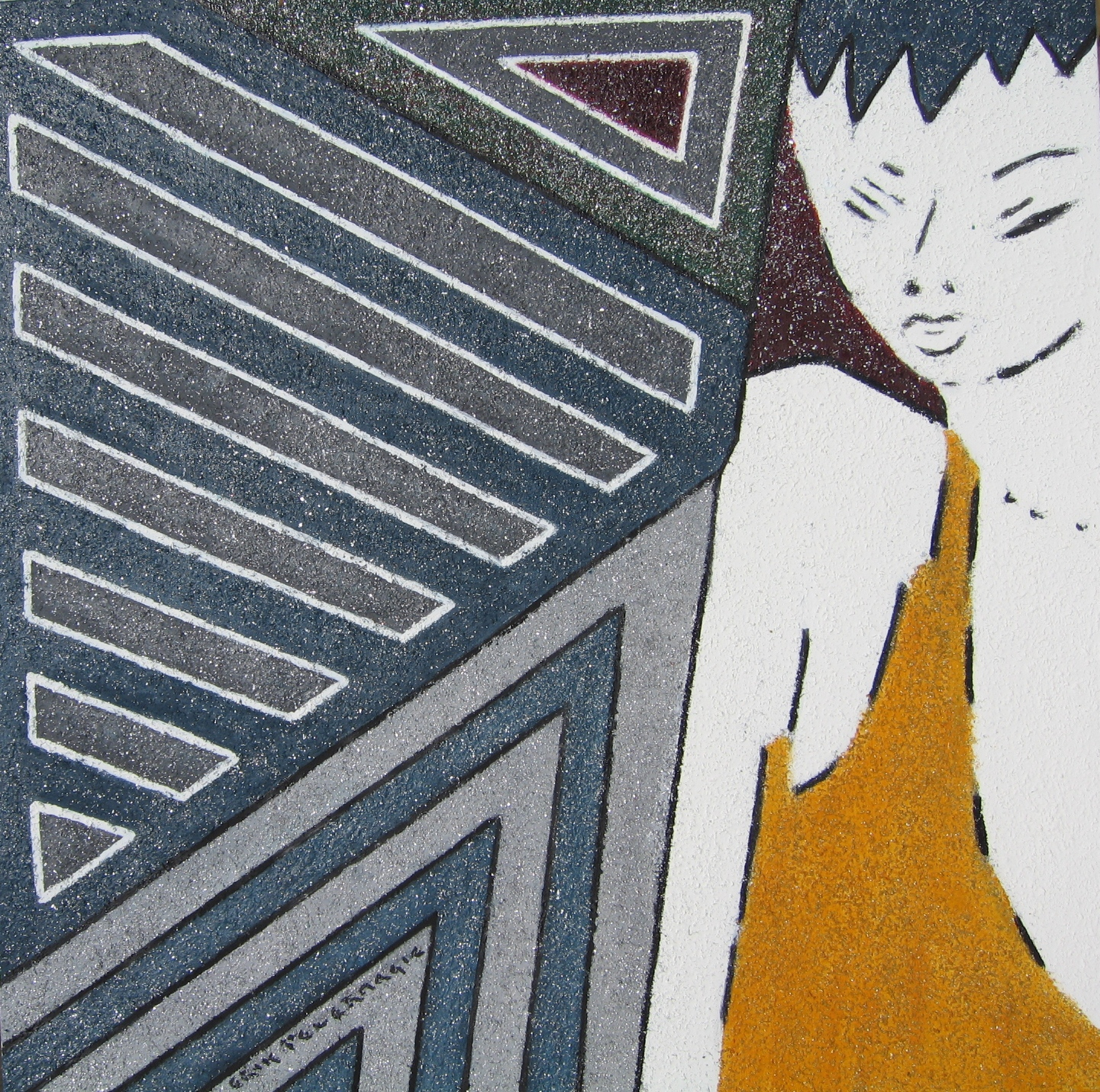 "A gap of silence", by Erik Pevernagie, (100 x 100 cm), Oil on canvas Silence is a fascinating cultural incident. It is a "contingent" phenomenon with positive or negative qualities and has to be "contextualized." "Silence" can be experienced as an interval. It can be breathing space and spawn release and wellness in a time of appalling inflation of words since it has the power to create ‘spiritedness’ and make room for imagination. It may lead to a reviving retreat into a world of new perspectives. As our environment is increasingly confronted with meaningless noise, silence can be considered as a redeeming rescue. In this respect, Samuel Beckett states his point of view: "Every word is like an unnecessary stain on silence and nothingness." But silence may be intolerably screaming if it means the absence of communication, deficiency in friendship and emotional deficit. It is felt, then, as a heavy burden to bear, an unbearable weight. Let us use words carefully because words can betray and kill. But, if words can hurt, silence can intimidate and scare. However, the song, The Sound of Silence, by Simon & Garfunkel, Paul Simon, makes it clear that silence is not the absence of sound, but is itself a kind of sound. For John Cage "there is no such thing as an empty space or an empty time. There is always something to see, something to hear." For William S. Burroughs "silence is only frightening to people who are compulsively verbalizing." Phenomenon: silence. Factual starting point of the picture: pondering girl